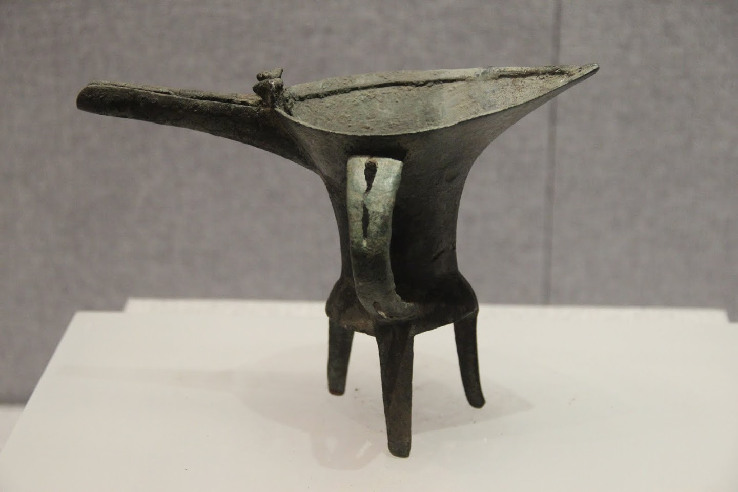 Xinzheng site bronze jue, Erlitou (?) culture (ca. 1900-1500 BCE). Henan Provincial Museum, Zhengzhou